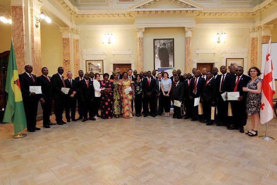 United Congolese Party organized and hosted a case study in the Republic of Georgia to learn how to fight against corruption, reform fiscal policy and tax systems, privatize state-owned enterprises, create a competitive education and healthcare system, and streamline procurement.